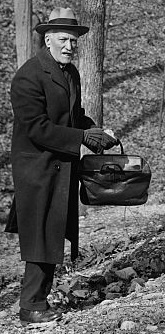 Dr. Walter Hough of Smithsonian in arrowhead quarry (Rock Creek Park), 3/6/26